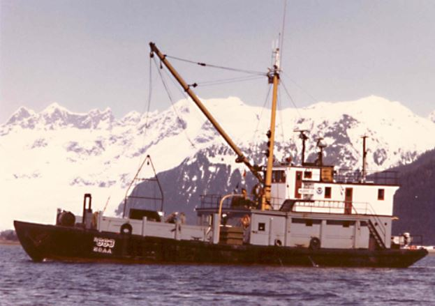 The U.S. National Oceanic and Atmospheric Administration oceanographic research ship NOAAS Murre II (R 663)